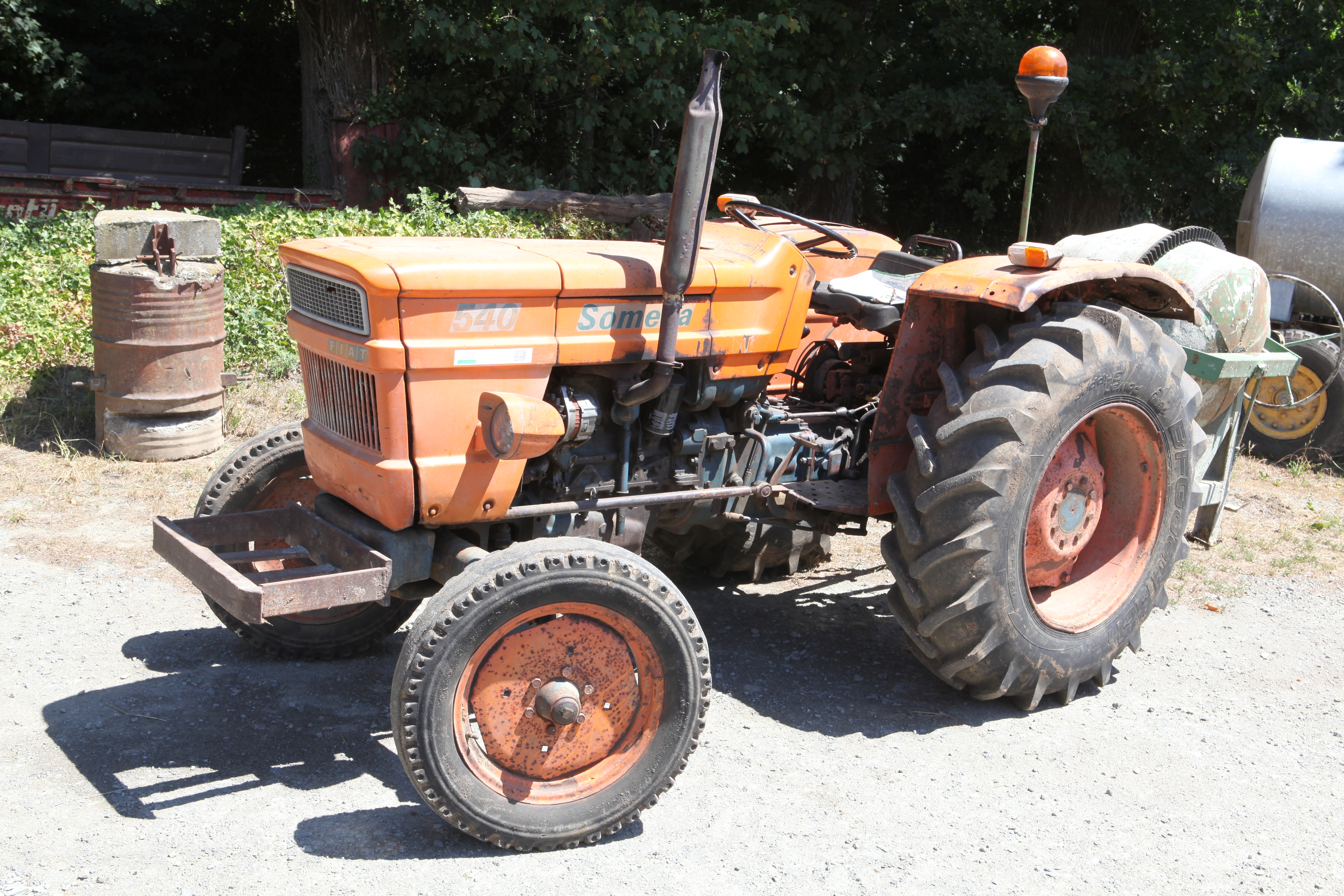 Someca 540 tractor